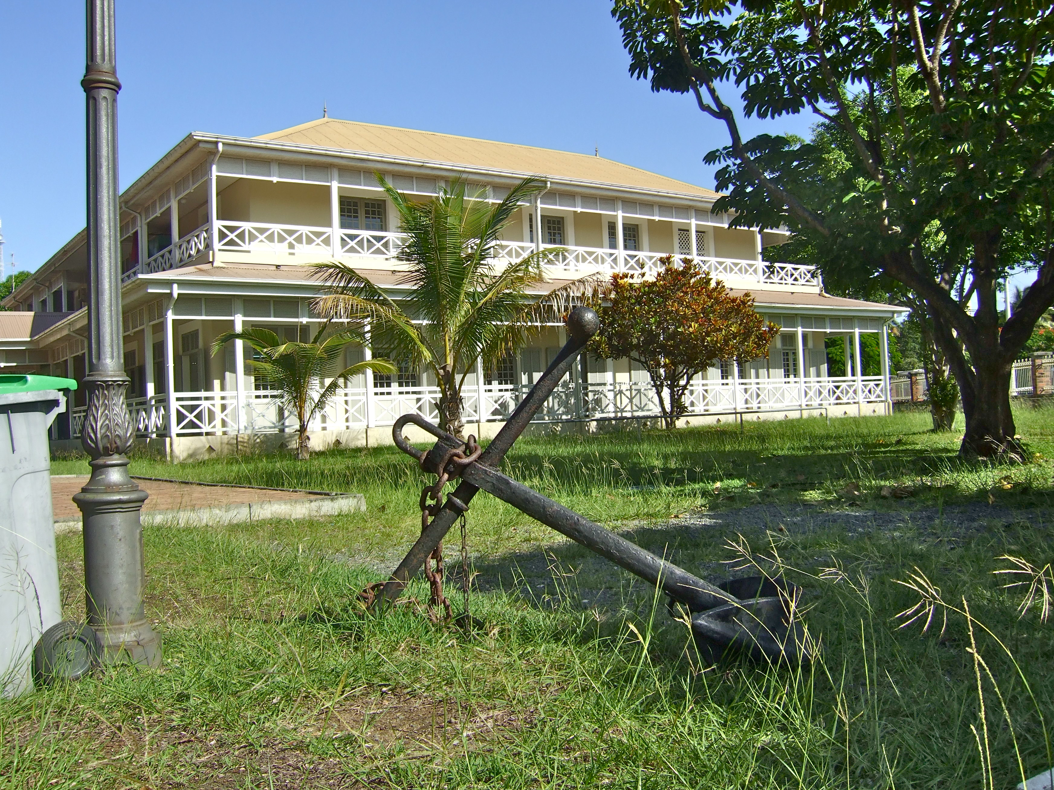 Exterior view of Bernheim Library, Nouméa Other information Photo by George Garrigues